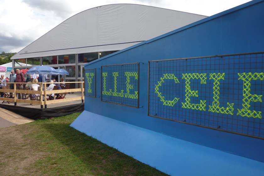 Exterior of Y Lle Celf (The Art Place) at the 2016 National Eisteddfod in Abergavenny, Monmouthshire, Wales - Y Lle Celf yn yr Eisteddfod 2016 yn Y Fenni, Sir Fynwy, Cymru